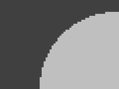 An example used to illustrate ringing artifacts, showing a quarter-circle of light gray on dark gray with no artifacts; contrasts with File:Ringing artifact example.png, which has artifacts. This was obtained from the (actual) original (60×45 px) by 4× upscaling with nearest-neighbor interpolation.